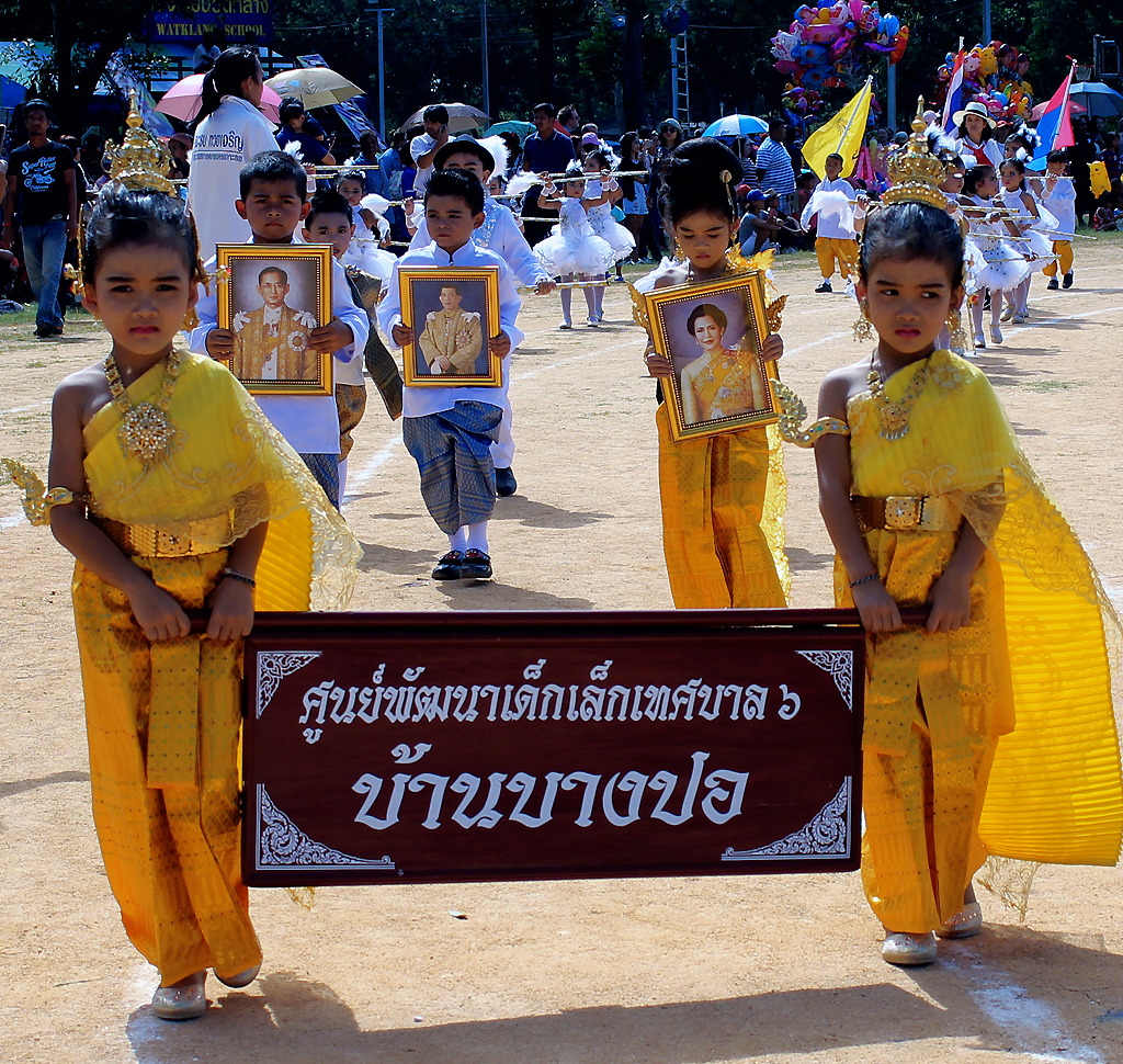 Photos of the late king Bhumibol Adulyadej (Rama IX), king Vajiralongkorn (Rama X), and queen Sirikit, carried by children at the 2017 National Sports Day parade (Koh Samui).